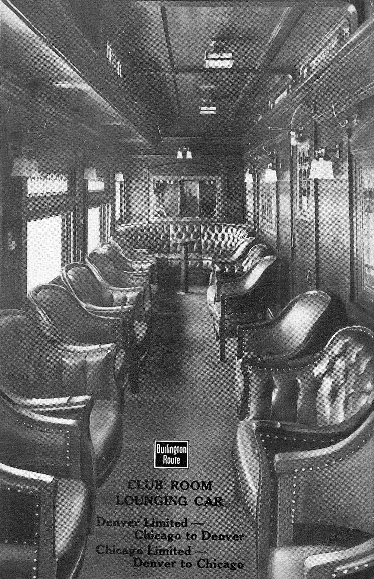 Postcard photo of the club/lounge car on the Burlington Route's Denver Limited and Chicago Limited. The train was called Denver Limited when it left Denver for Chicago and Chicago Limited when it went from Chicago to Denver.